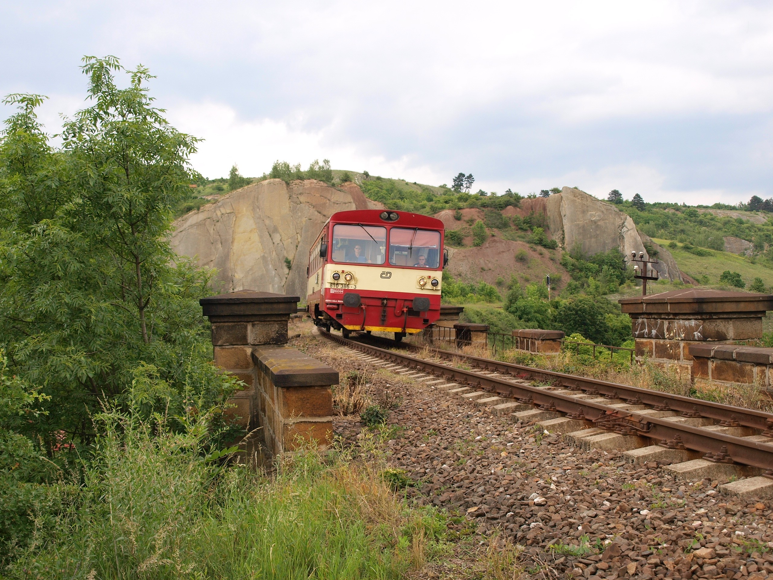 ČD Class 810 at north-west viaduct of the Prague Semmering towards Žvahov